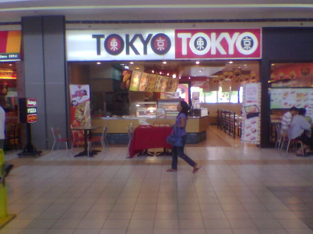 The front of the Tokyo Tokyo outlet in SM City Clark. Taken by mobile phone.